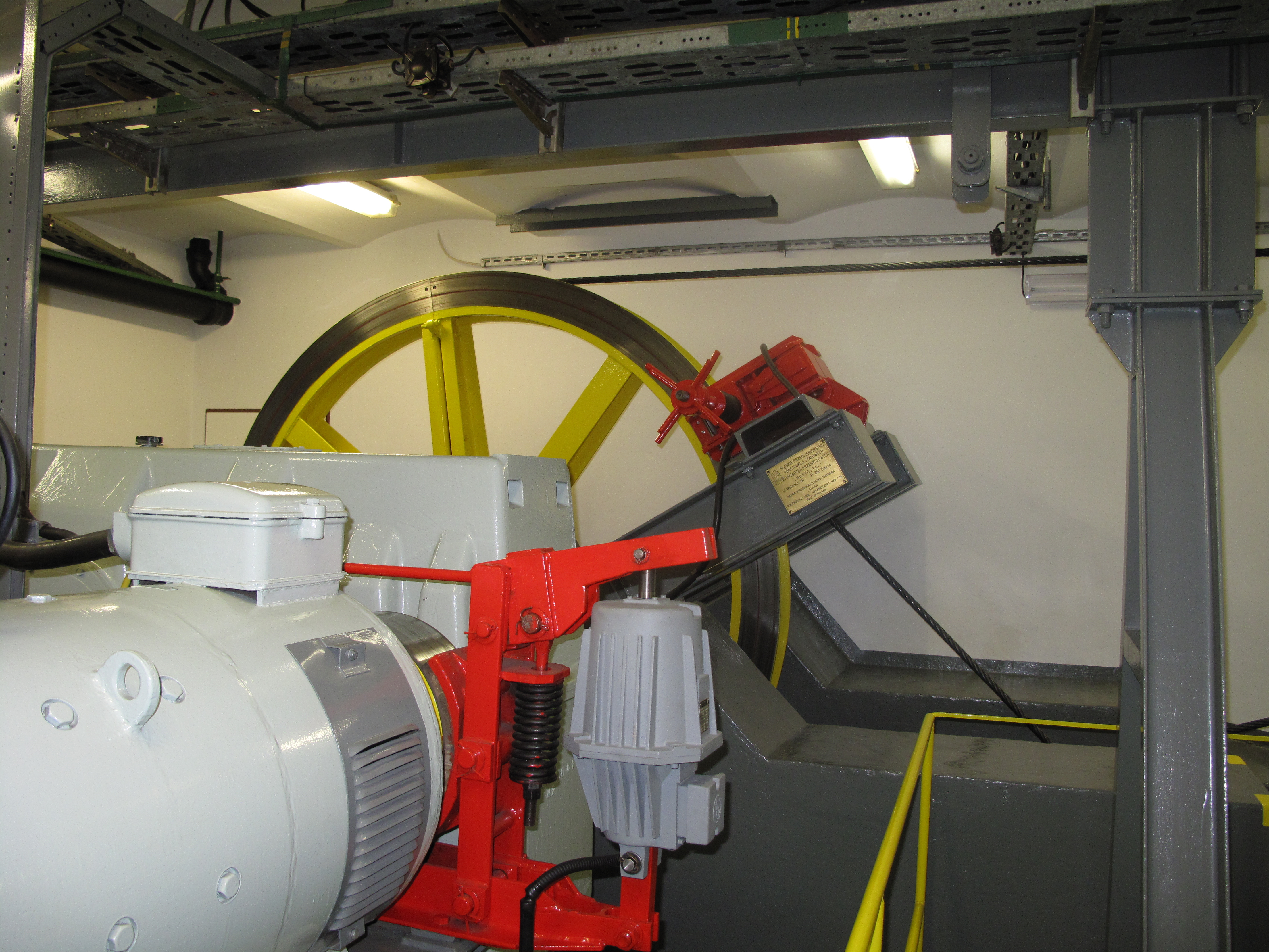 100 year anniversary of cablecar Diana, Karlovy Vary, Czech Republic.